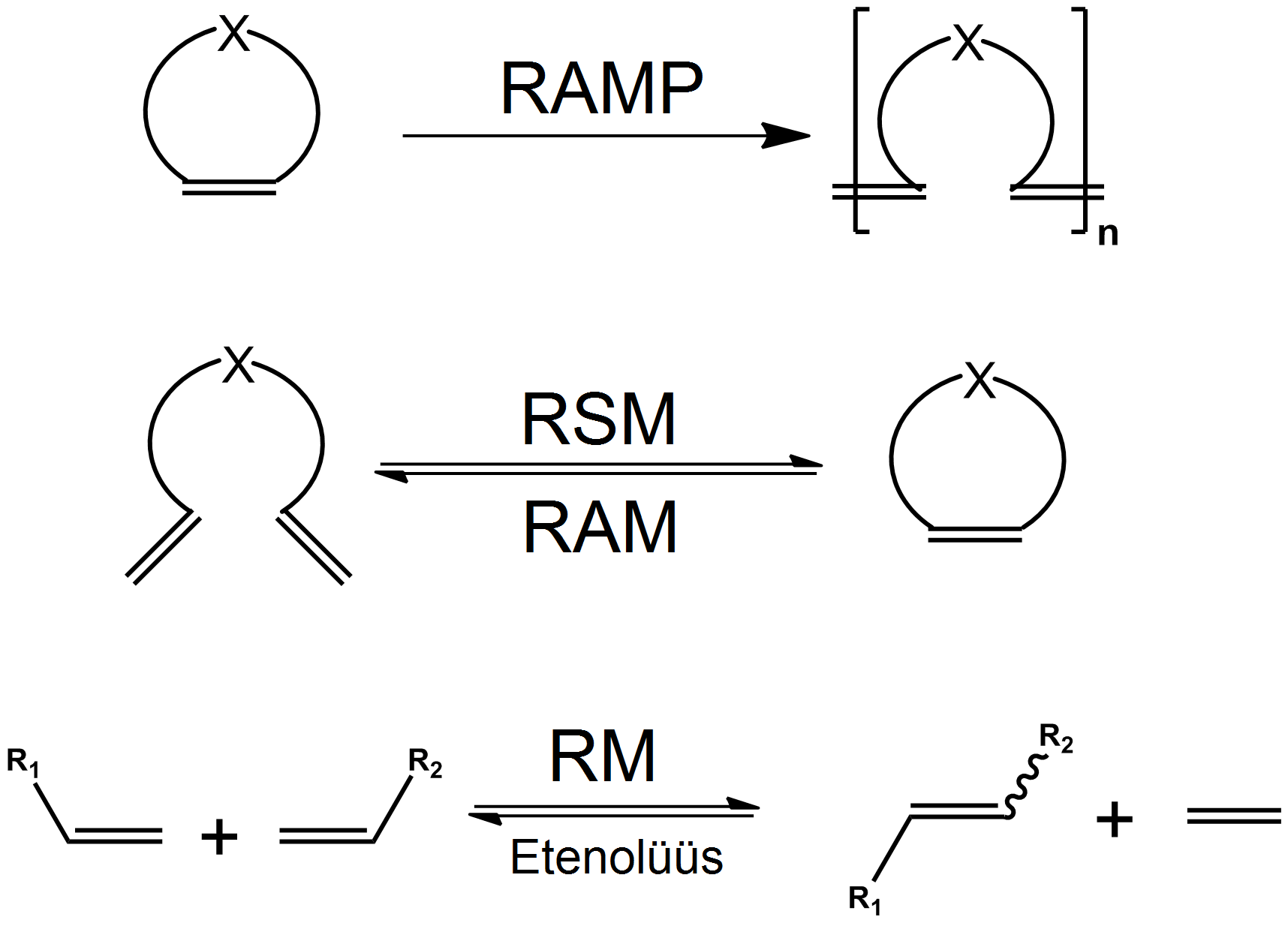 Metathesis cycles